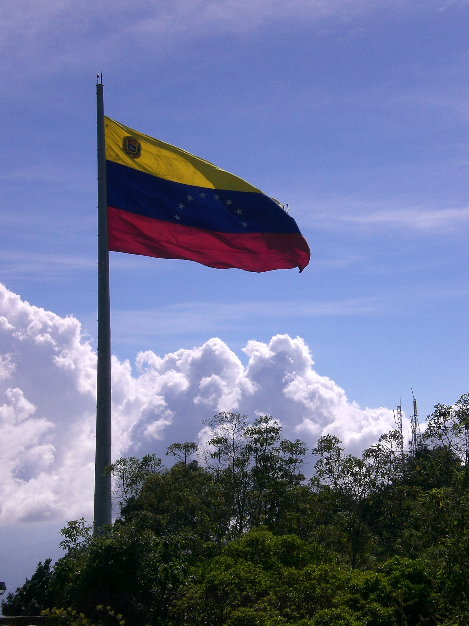 Flag of Venezuela at Cerro El Ávila, Caracas